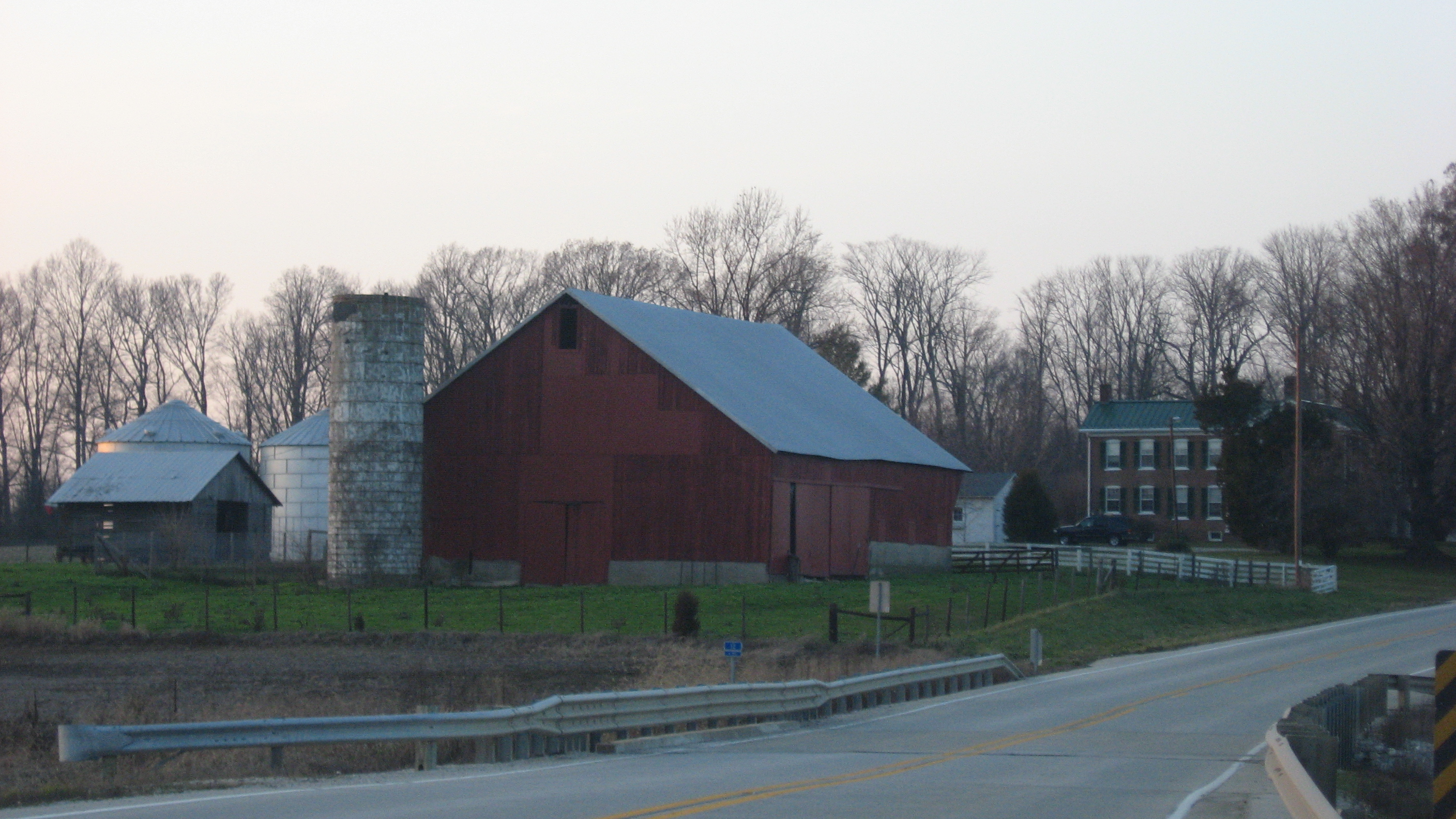 Barn and house at the Andrew Nicholson Farmstead, located at 12095 E. State Road 550 just west of Wheatland in Steen Township, Knox County, Indiana, United States. Built in 1863 (house) and 1905 (barn), the farm complex is listed on the National Register of Historic Places.